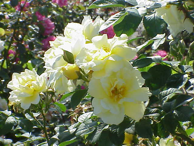 Species: Rosa sp. Family: Rosaceae Cultivar: Gelbe Dagmar Hastrup, Meilland 1989 Image No. 120